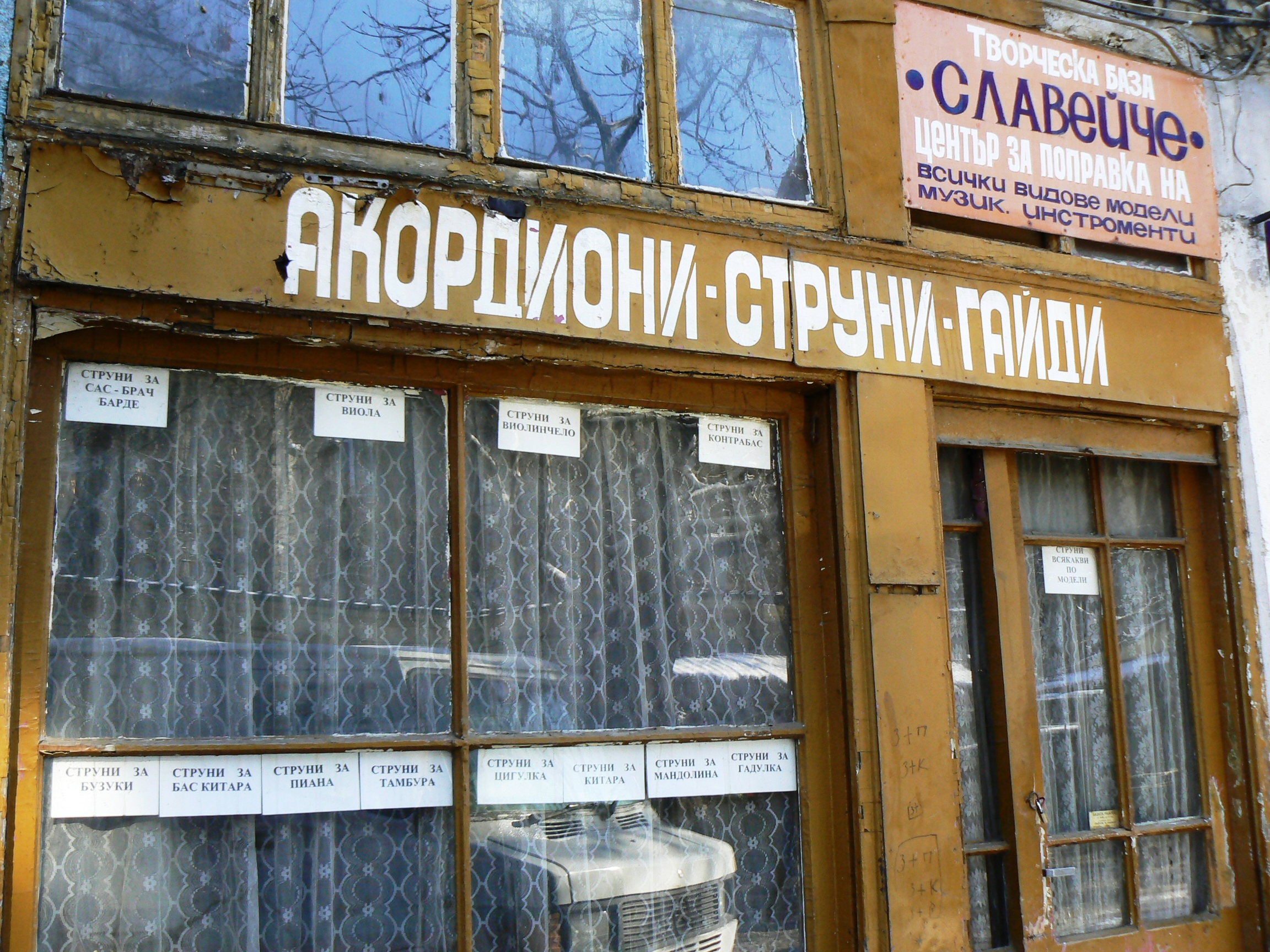 Five spelling mistakes on the advertising signboads of a music instruments workshop, Sofia, Bulgaria